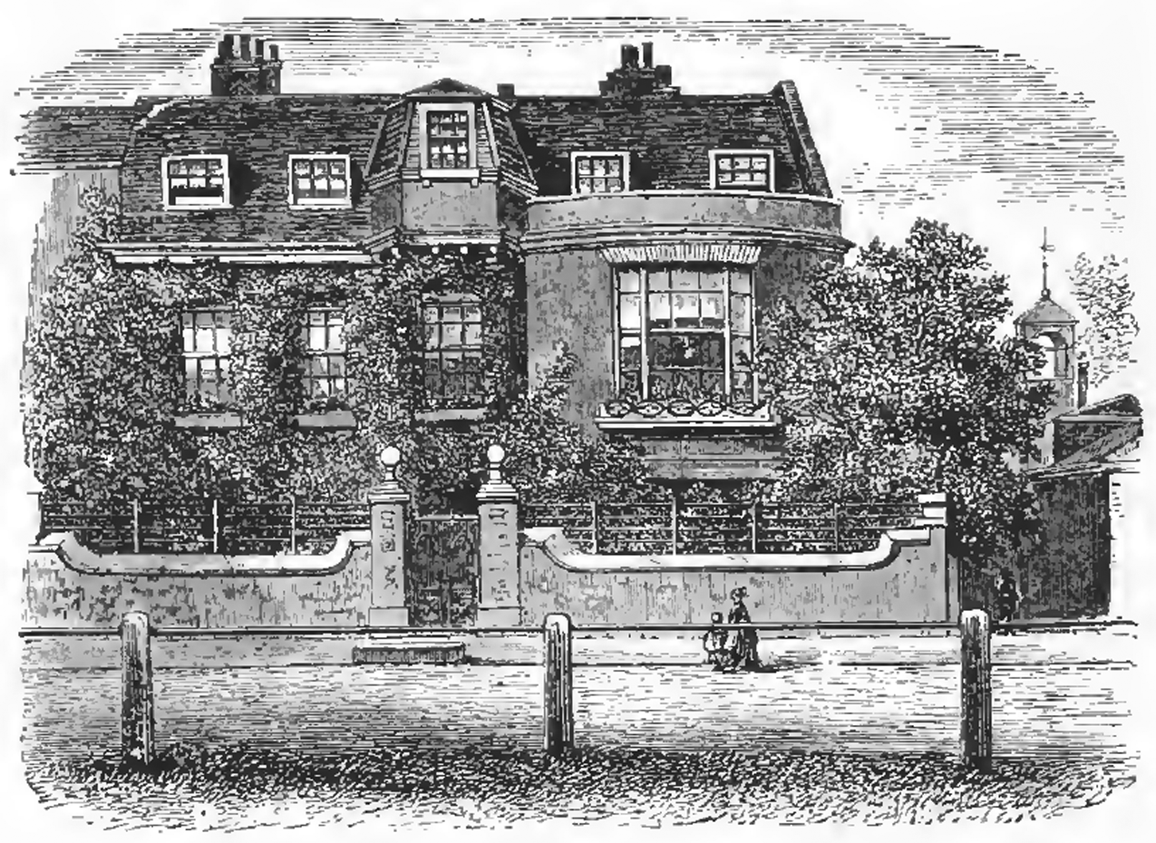 House in Hampton Court